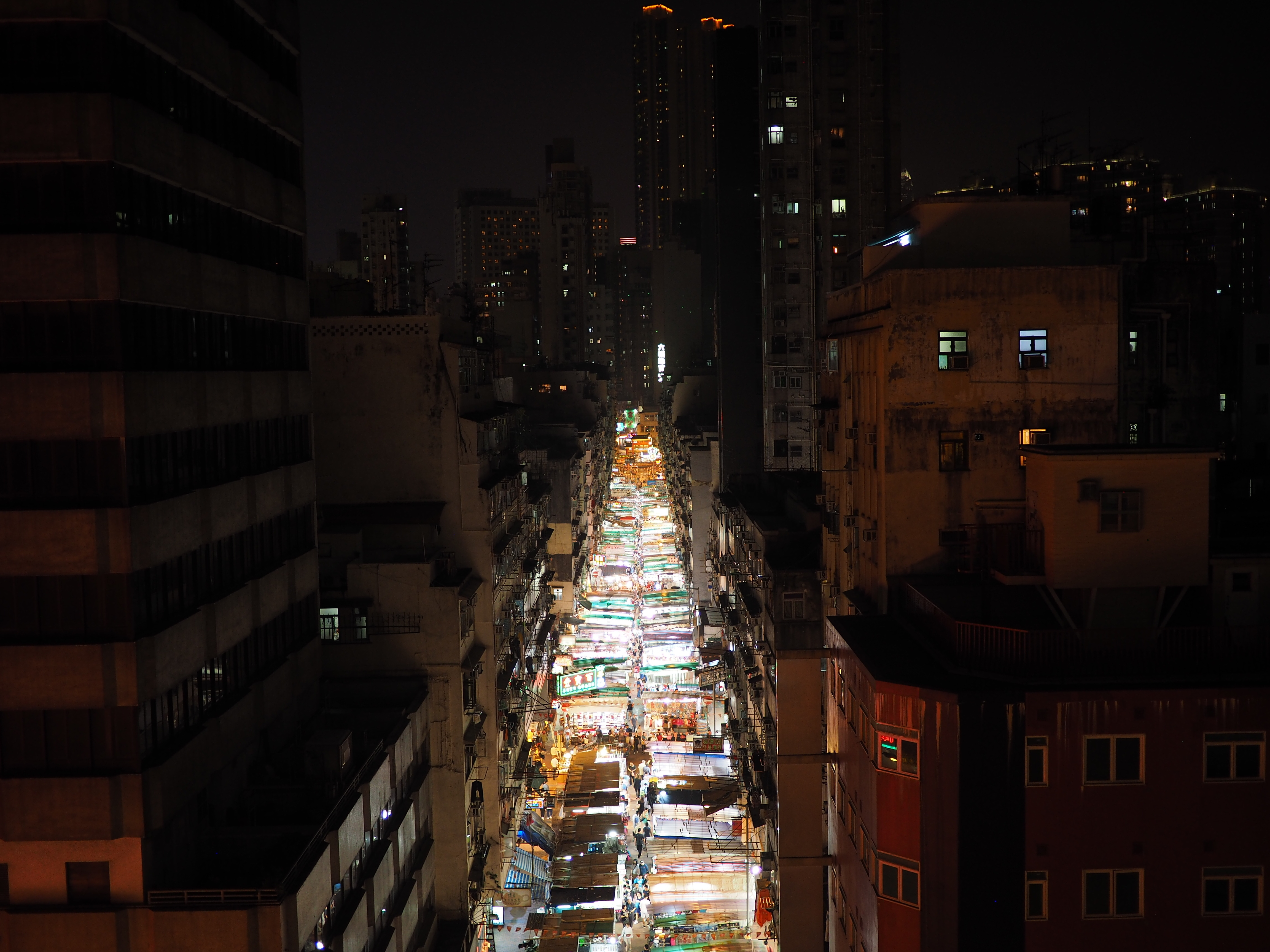 The Temple Street Night Market viewed from a car park at the northern end of the street